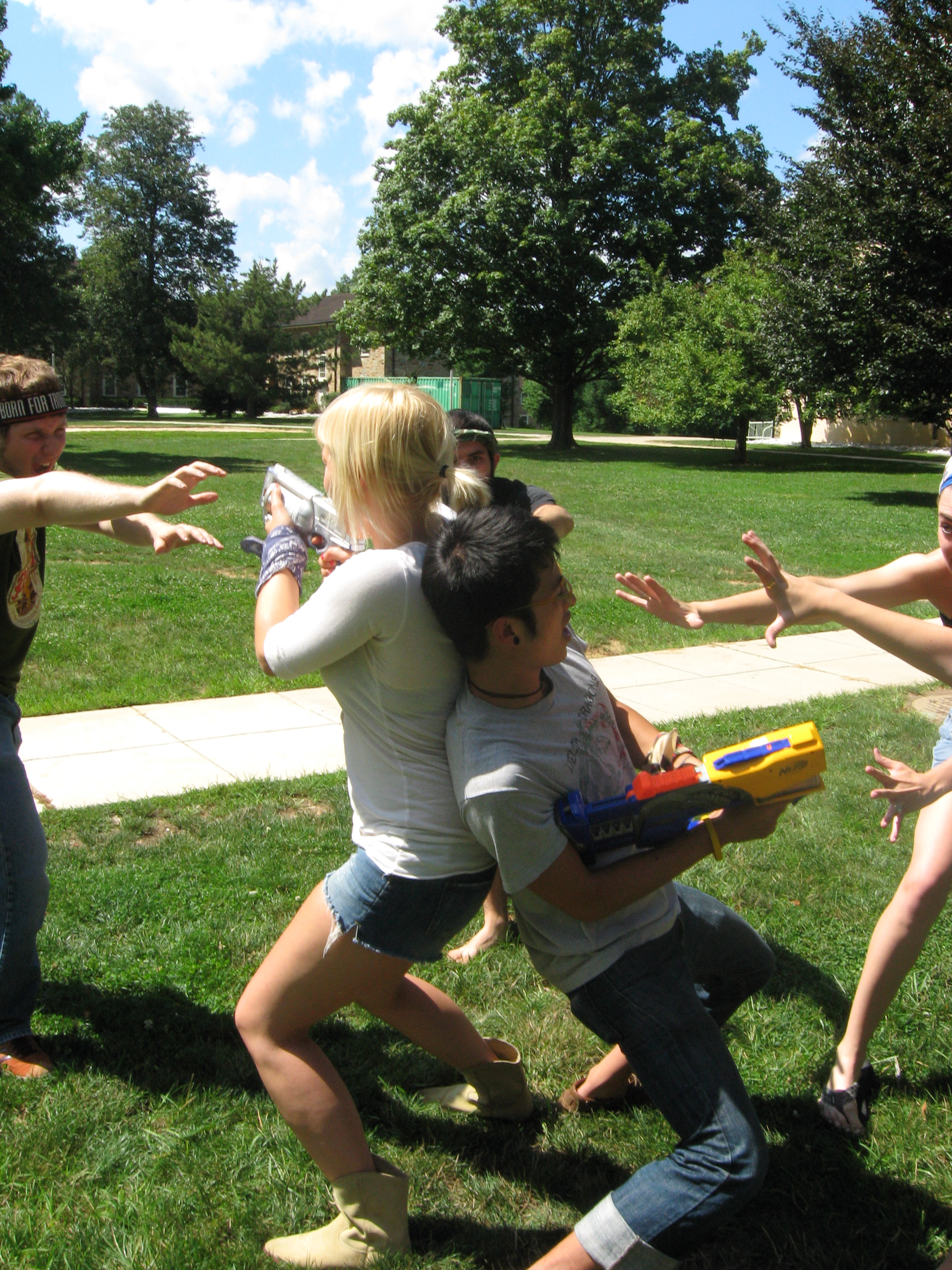 Student at Goucher College playing Humans vs. Zombies